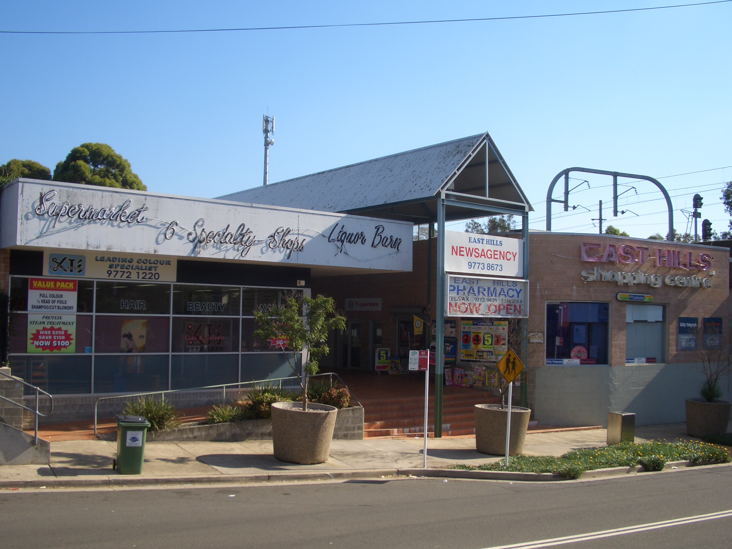 East Hills shopping centre, Maclaurin Avenue